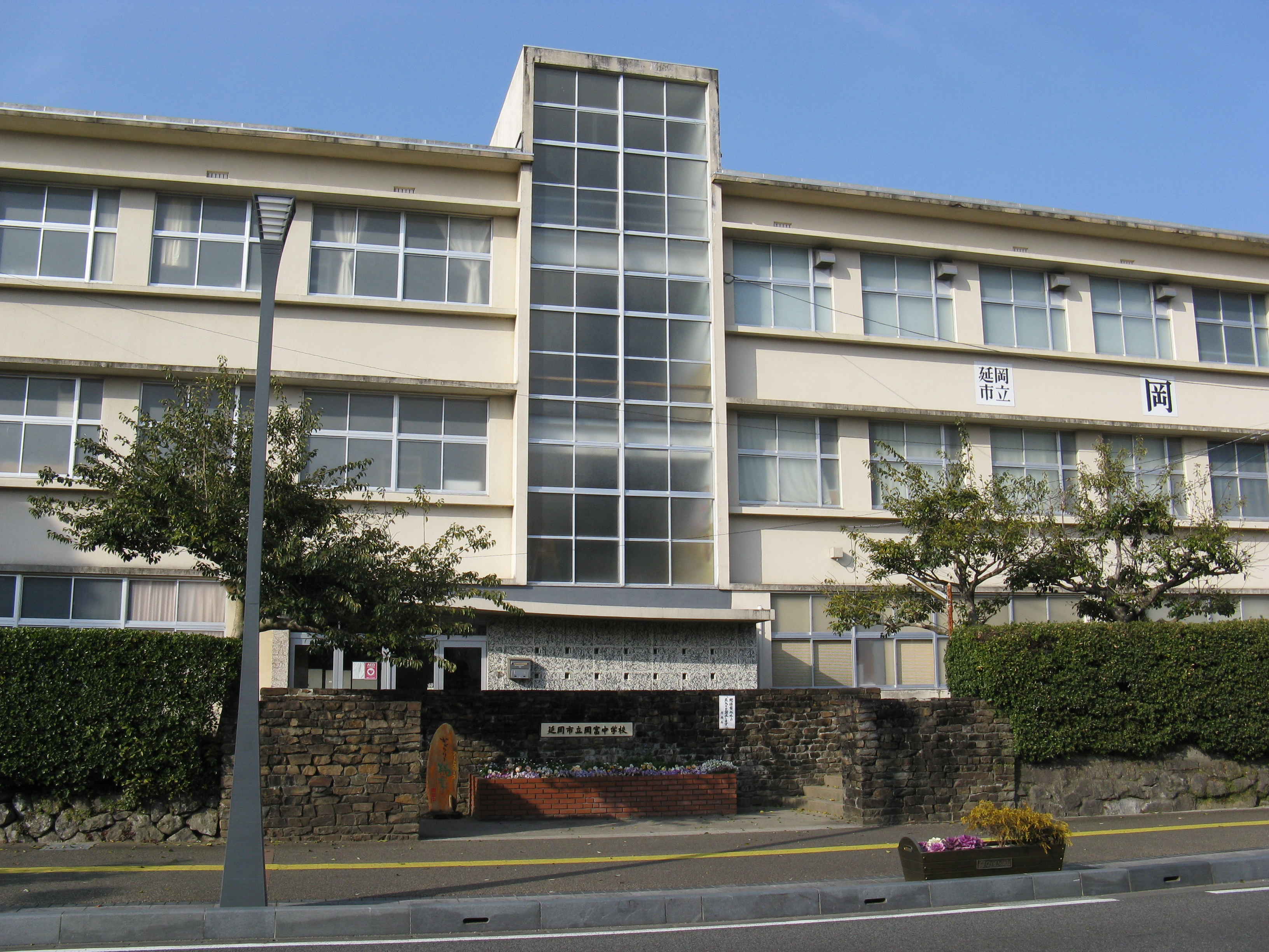 Okatomi Junior High School (Nobeoka City, Miyazaki, Japan)